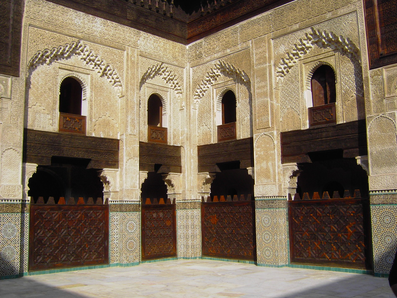 This is a FREE photo! Yes, all the photos in my gallery are free! :) You can download it at full resolution (check the “all sizes” option) and do whatever you want with it: share it, adapt it and/or combine it with other material and distribute the resulting works. Please give photo credits to “Carlos ZGZ” and put a link to this page. I’ll be very happy to know that this photo has been useful to someone, so don’t hesitate to tell me about your use (and I will place here a link to it if you wish)! __ ¡Esta es una foto LIBRE! ¡Sí, todas las fotos de mi galería son libres! :) Puedes descargártela en plena resolución (usa la opción “all sizes”) y hacer lo que quieras con ella: compartirla tal cual, modificarla a tu gusto y/o combinarla con otro material y distribuir el resultado. Por favor, si utilizas esta foto dale el crédito a “Carlos ZGZ” y coloca un enlace a esta página Me hace mucha ilusión saber que una de mis fotos le ha servido a alguien. Así que si es tu caso, ¡no dudes en decírmelo! (y si quieres, pondré un enlace a tu proyecto aquí).